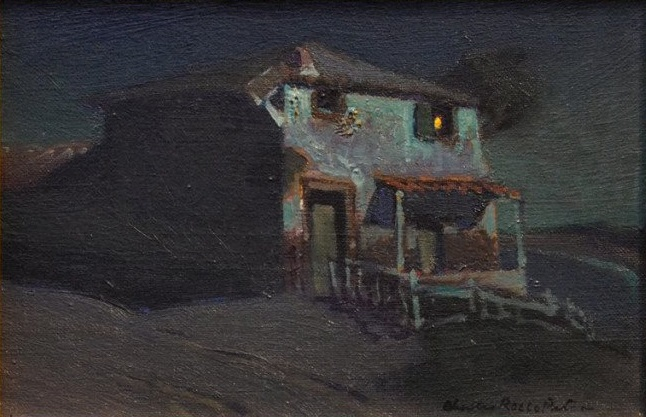 Charles Rollo Peters, “Monterey Adobe at Night,” ca. 1918. Oil on canvas, 13″ x 16″.